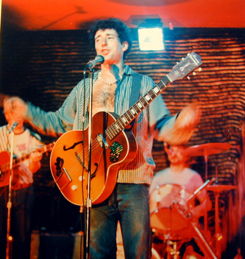 Jonathan Richman, Soft Rock Cafe, Kitsalano, B.C Canada. Circa 1984